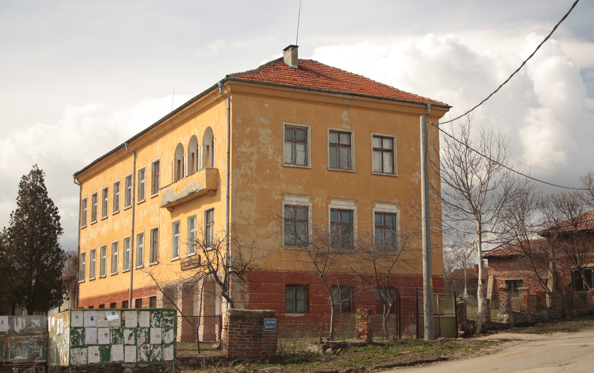 Herakovo Saints Cyril and Methodius primary school